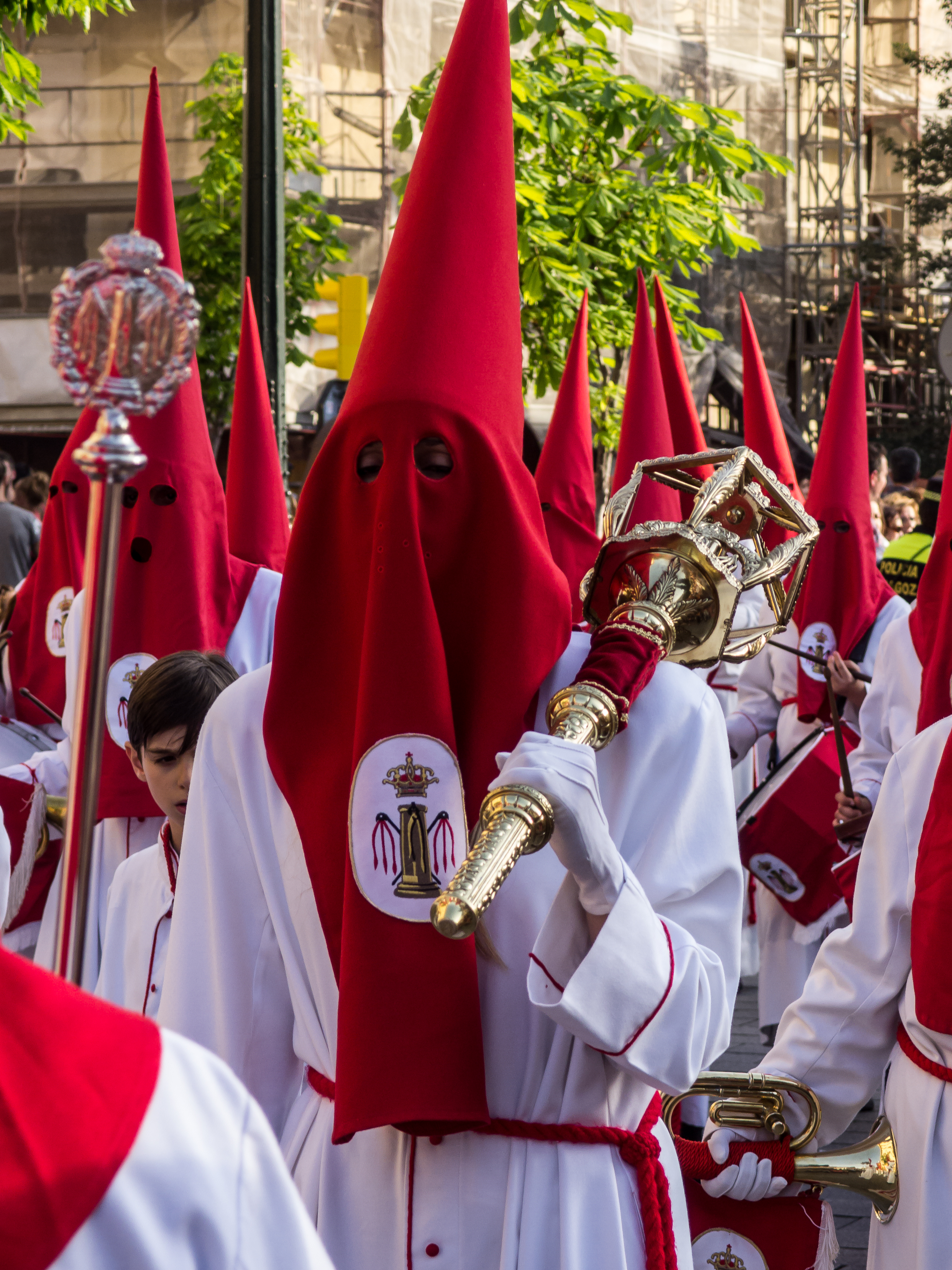 Procesión del Santo Entierro. Cofradía de la Columna. This is a photography of a Folklore festival in Spain (Wikidata id Q9075892).